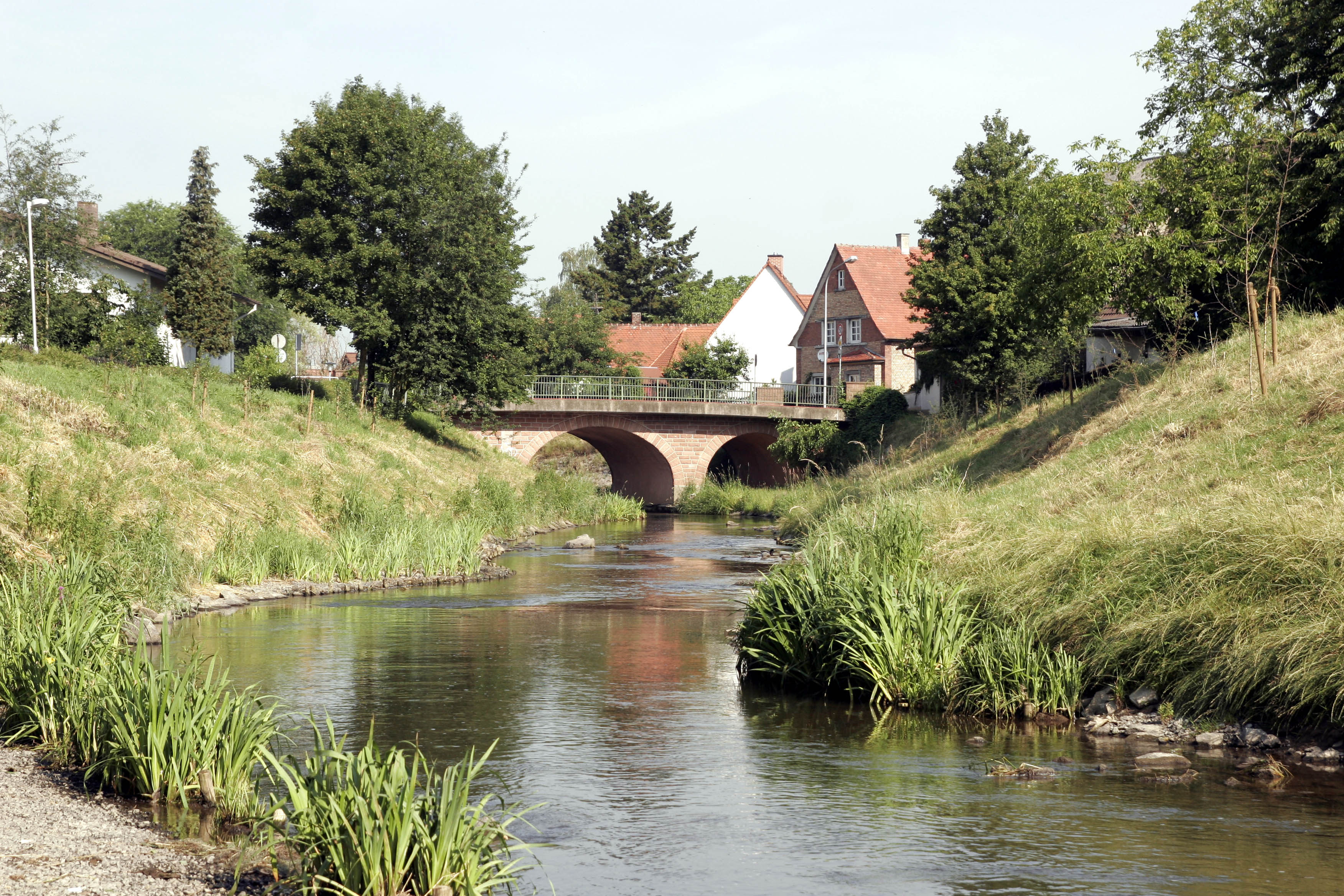 Weschnitz river in Einhausen (Hesse, Germany).